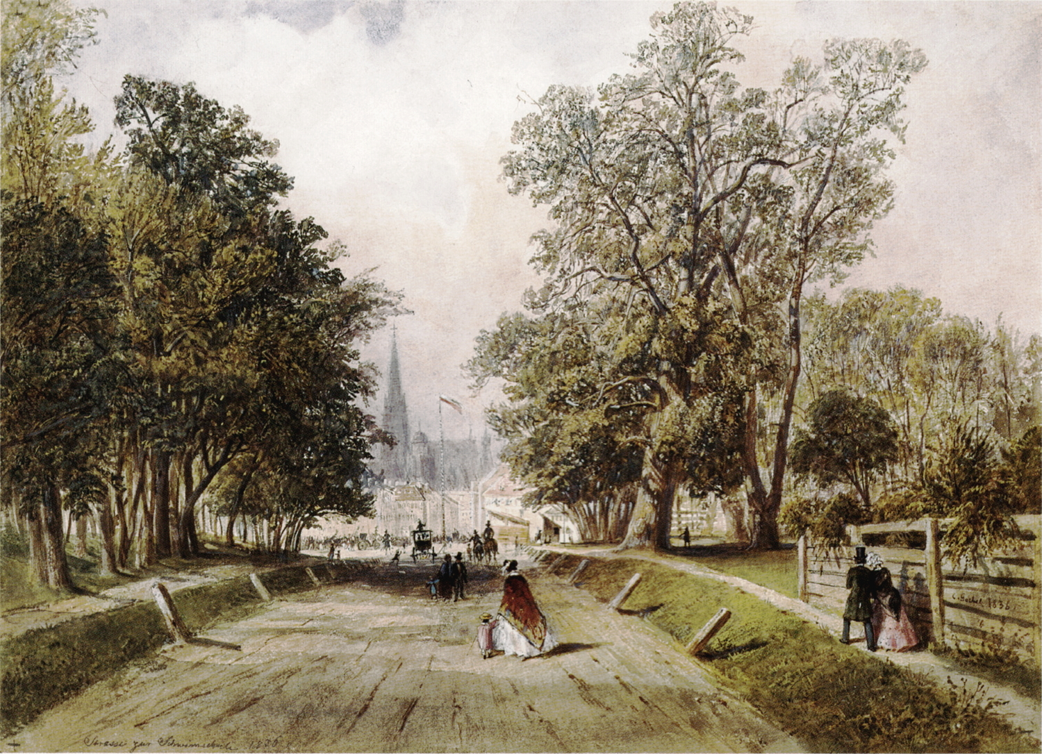 The Praterstern and the Straße zur Schwimmschule (now Lassallestraße). Signed and dated "C. Goebel 1836".